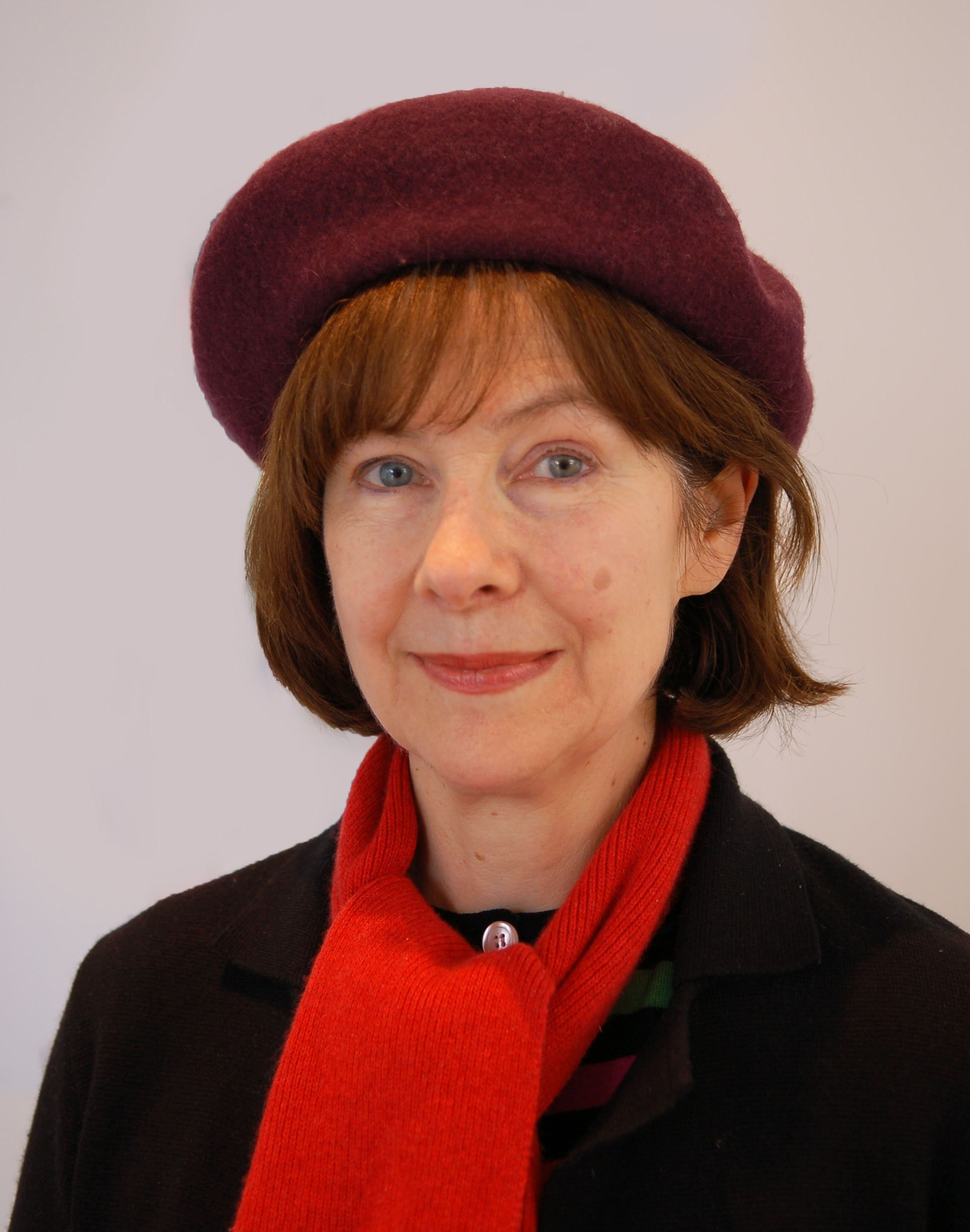 Posy Simmonds